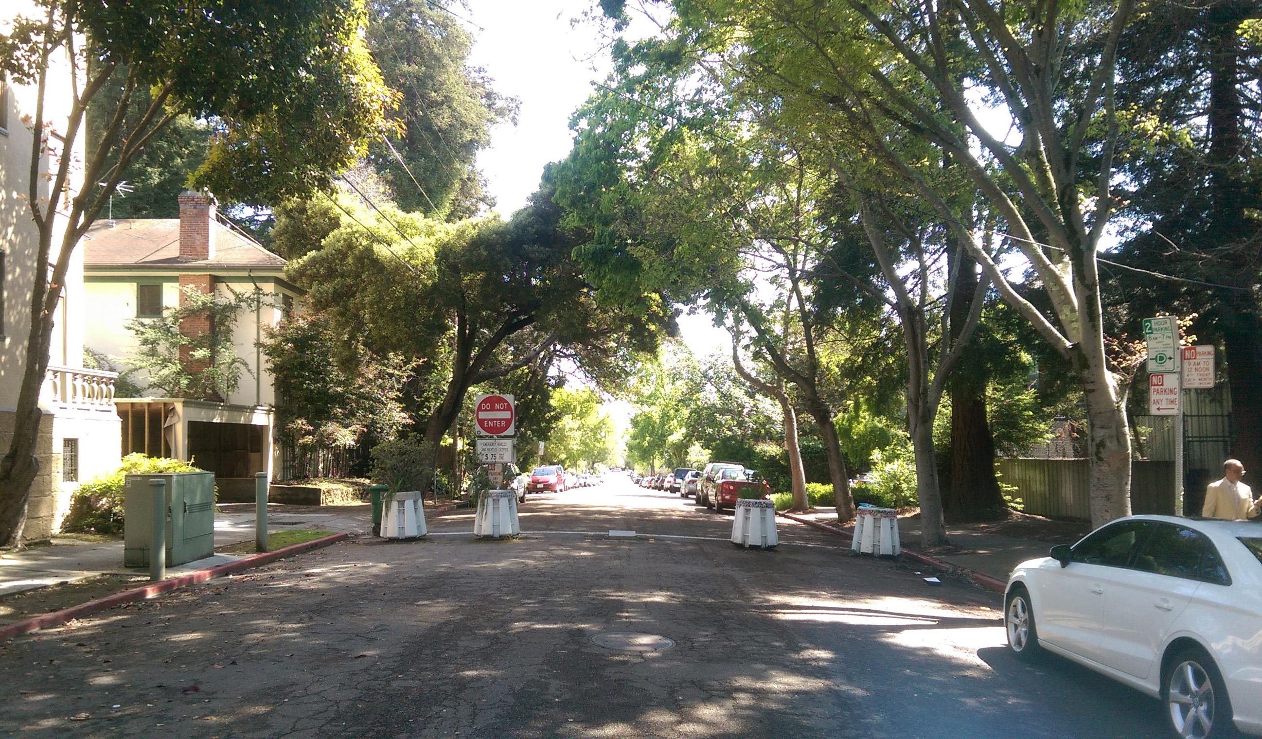 Berkeley, California - Southside - Traffic barrier at Etna and Dwight